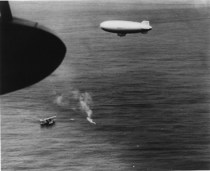 Rescue of U-701 Survivors July 9, 1942 Coast Guard PH-2 seaplane lands to rescue U-701 survivors - Navy K-type airship overhead had earlier located survivors and dropped raft and supplies to the survivors